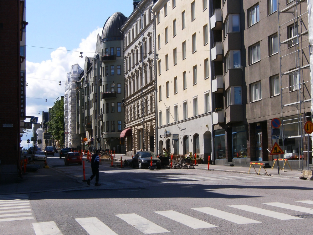 A view on the street "Liisankatu", Helsinki, Finland